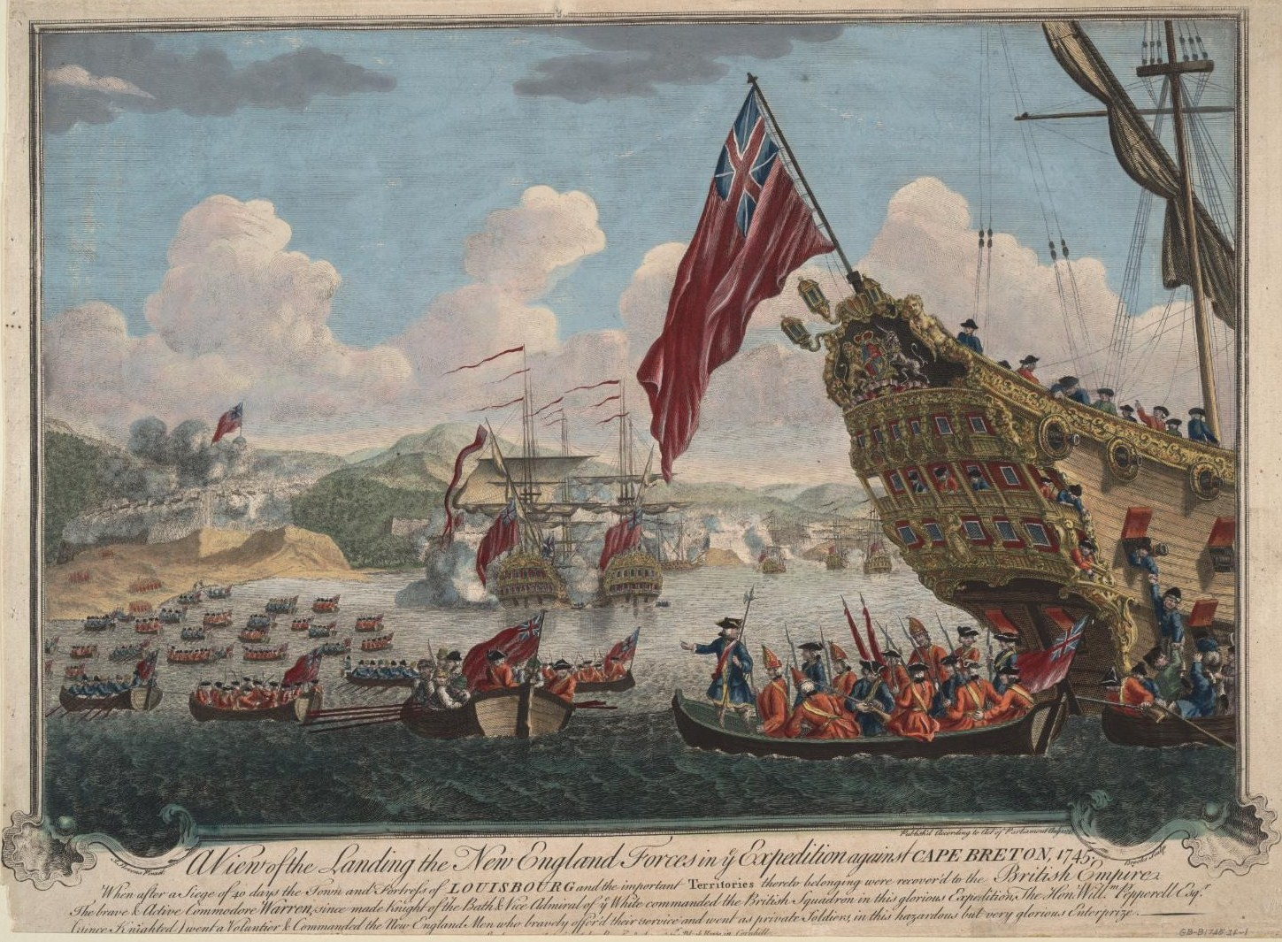 View of the English landing on the island of Cape Breton to attack the fortress of Louisbourg. 1745.